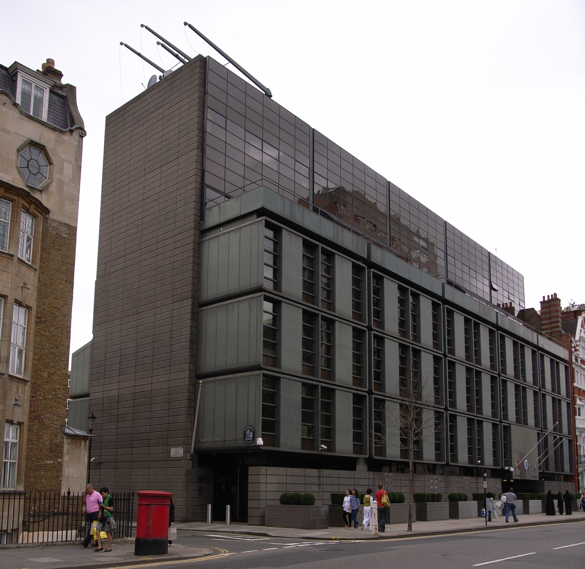 The Icelandic Embassy Photo taken on a 20th Century Society walk around Kensington & Pimlico on 1st August 2009.